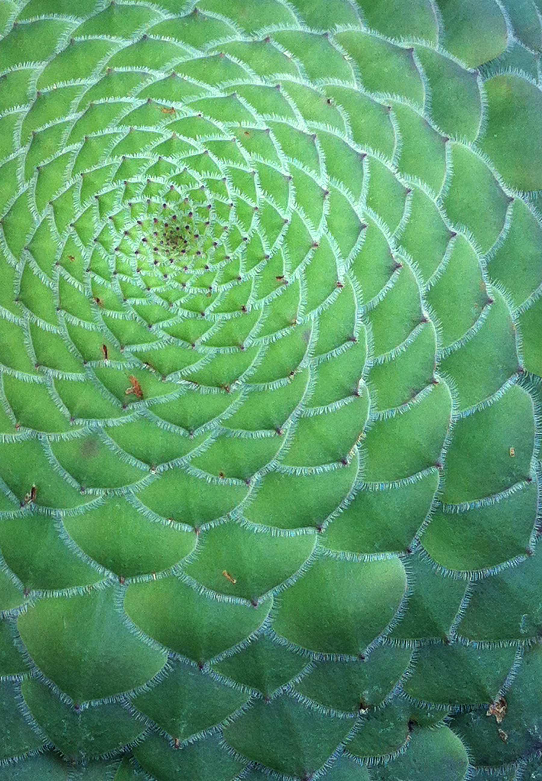 A detail of a Aeonium tabuliforme from Trädgårdsföreningen, Gothenburg, Sweden